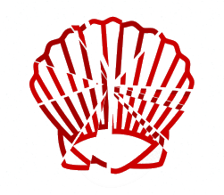 Shellshock bug symbol